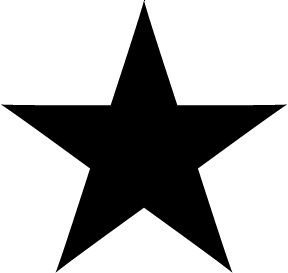 Original Author: SaturnYoshi Current Author: RattleMan